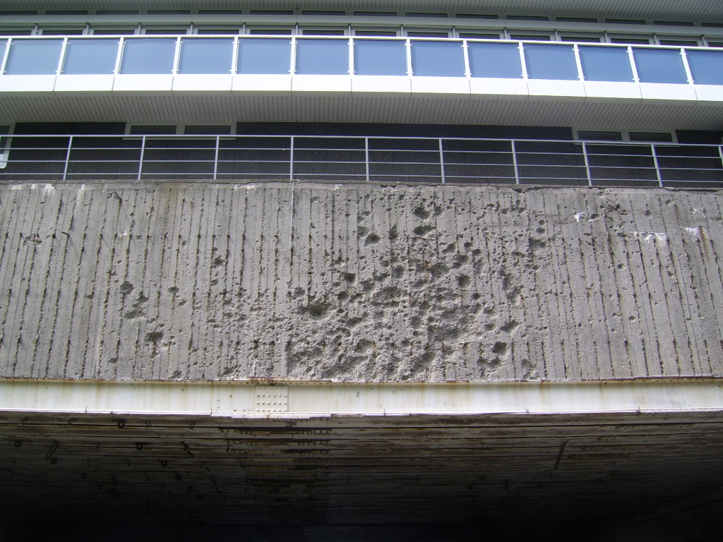 Marks of the american bombattack on the front of submaine pen "Hornisse", , Bremen, Germany